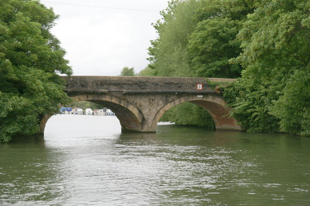 Below Godstow Bridge